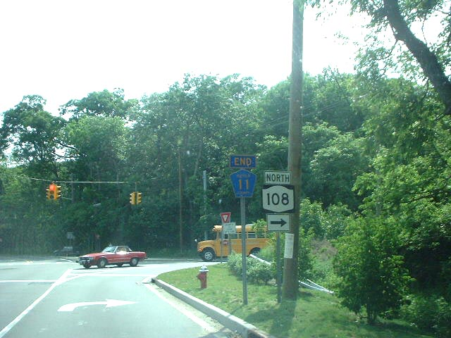 The southern terminus of New York State Route 108 as faced from Suffolk County Route 11 westbound. Route 11 is missigned as ending, because Route 11 continues to the county line nearby.